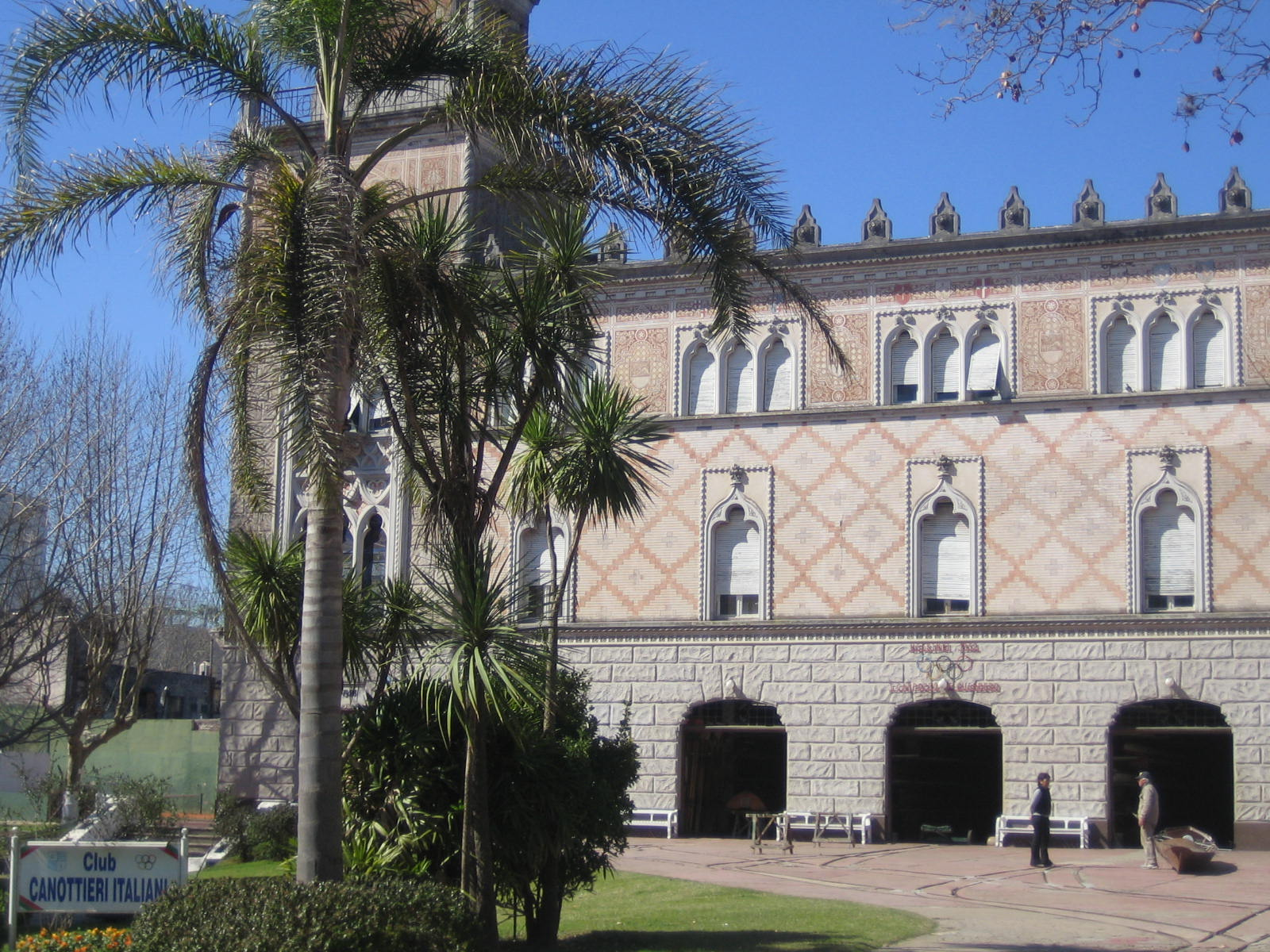 Club Canottieri Italiani - El Tigre - Buenos Aires - Argentina